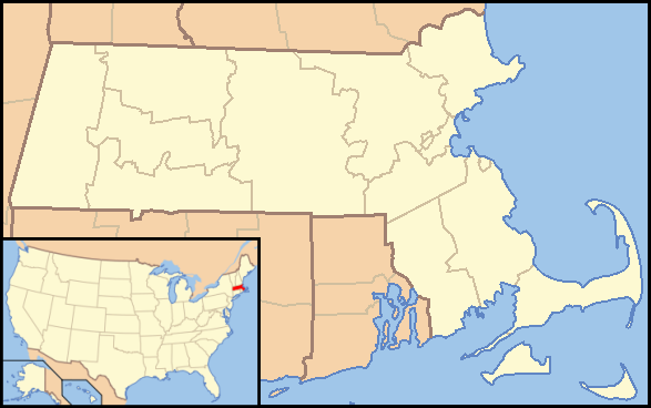 Locator Map of Massachusetts, United States